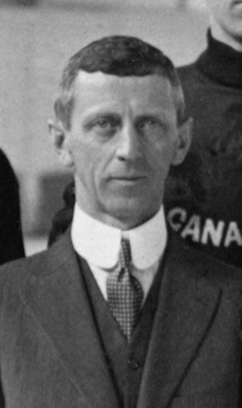 Canadian Olympic Representative William Abraham "W. A." Hewitt at the 1920 Summer Olympics in Antwerp, Belgium. The picture is a crop out of a larger team photo taken inside the ice rink Palais de Glace d'Anvers. The ice hockey tournament at the 1920 summer Olympics took place between April 23 and April 29. The canadian team won gold medals at the games.